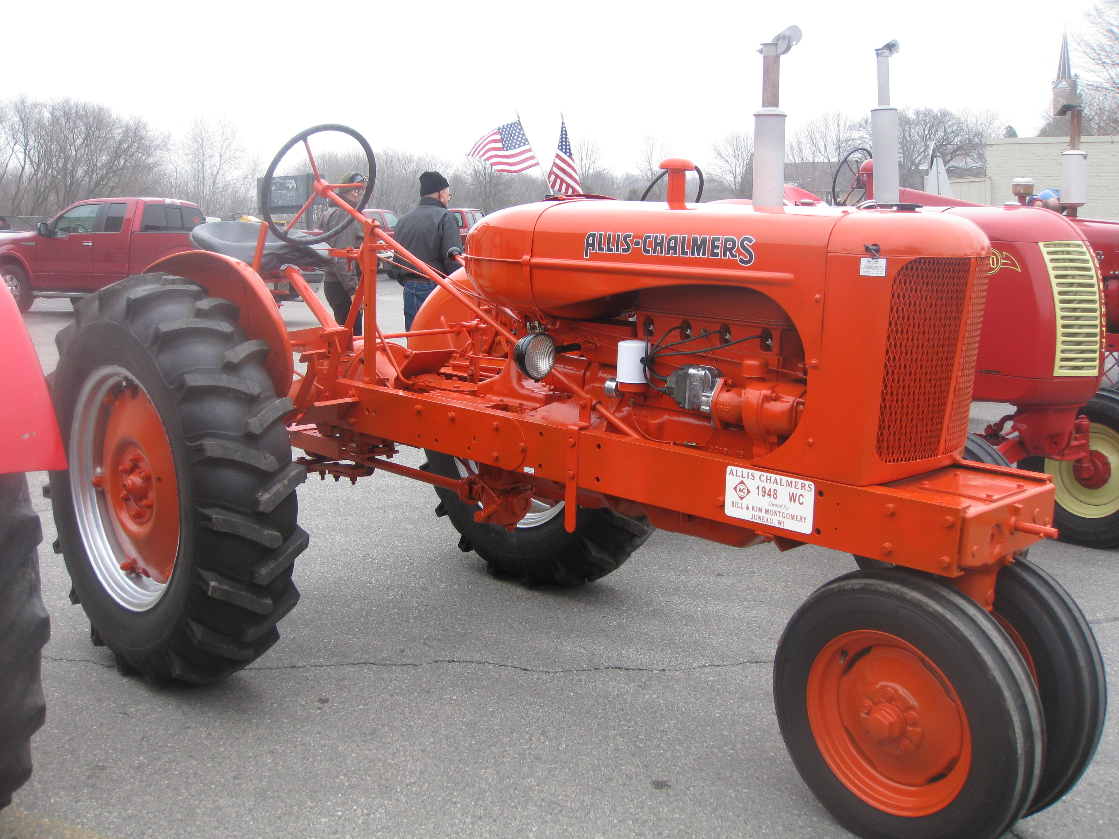 Allis Chalmers WC tractor (built 1948) at a show somewhere in the USA